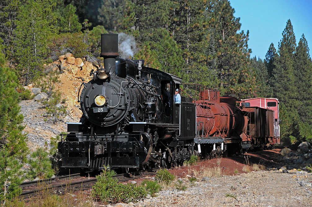 Even though its sponsor billed this as the last operation of steam on the McCloud but it wasn't, 2nd weekend in October but there would be one more weekend of steam.